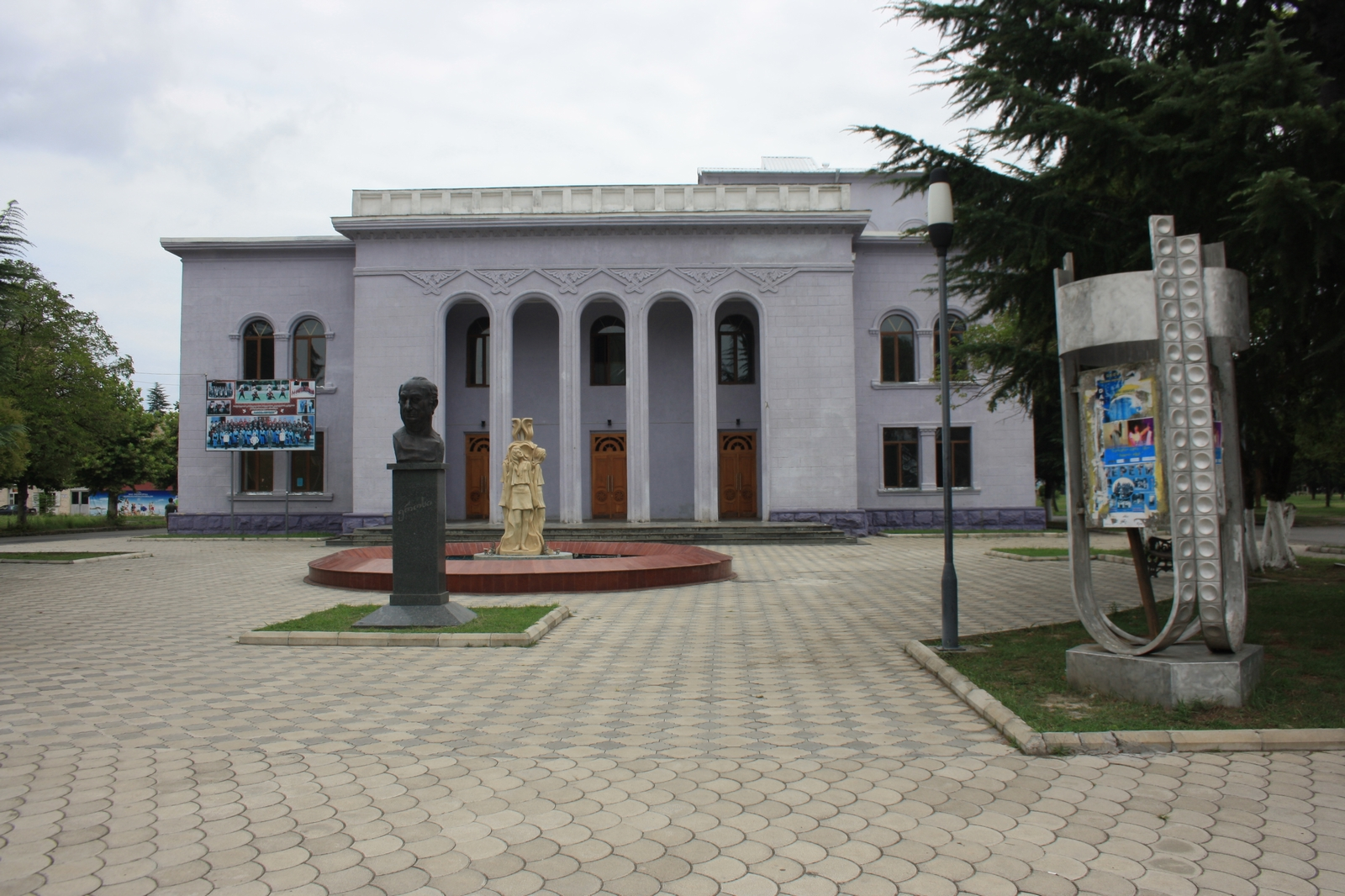 Samtredia Theatre